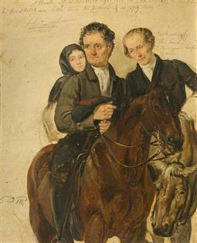 Work by Frederick Morgan (painter)